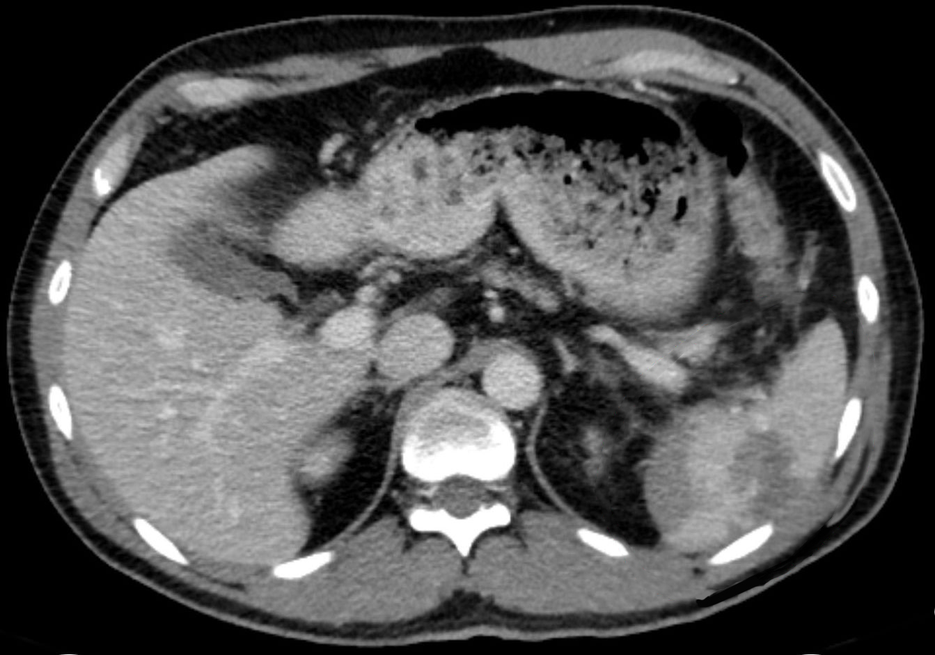 Traumatic splenic rupture in computer tomography, axial. Portal venous contrast medium phase. Hypodense irregularity in the lower part of the spleen as a correlate of the parenchyma. Band-shaped hem at the lower edge as a sign of free fluid / blood. This is an edited version of the source image made for use in the "Anatomist" iOS and Android app and shared here under the terms of the source image's Share Alike Creative Commons license.